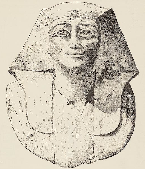 Drawing by Jacques de Morgan of the funerary mask of pharaoh Hor Awibre, 13th dynasty.